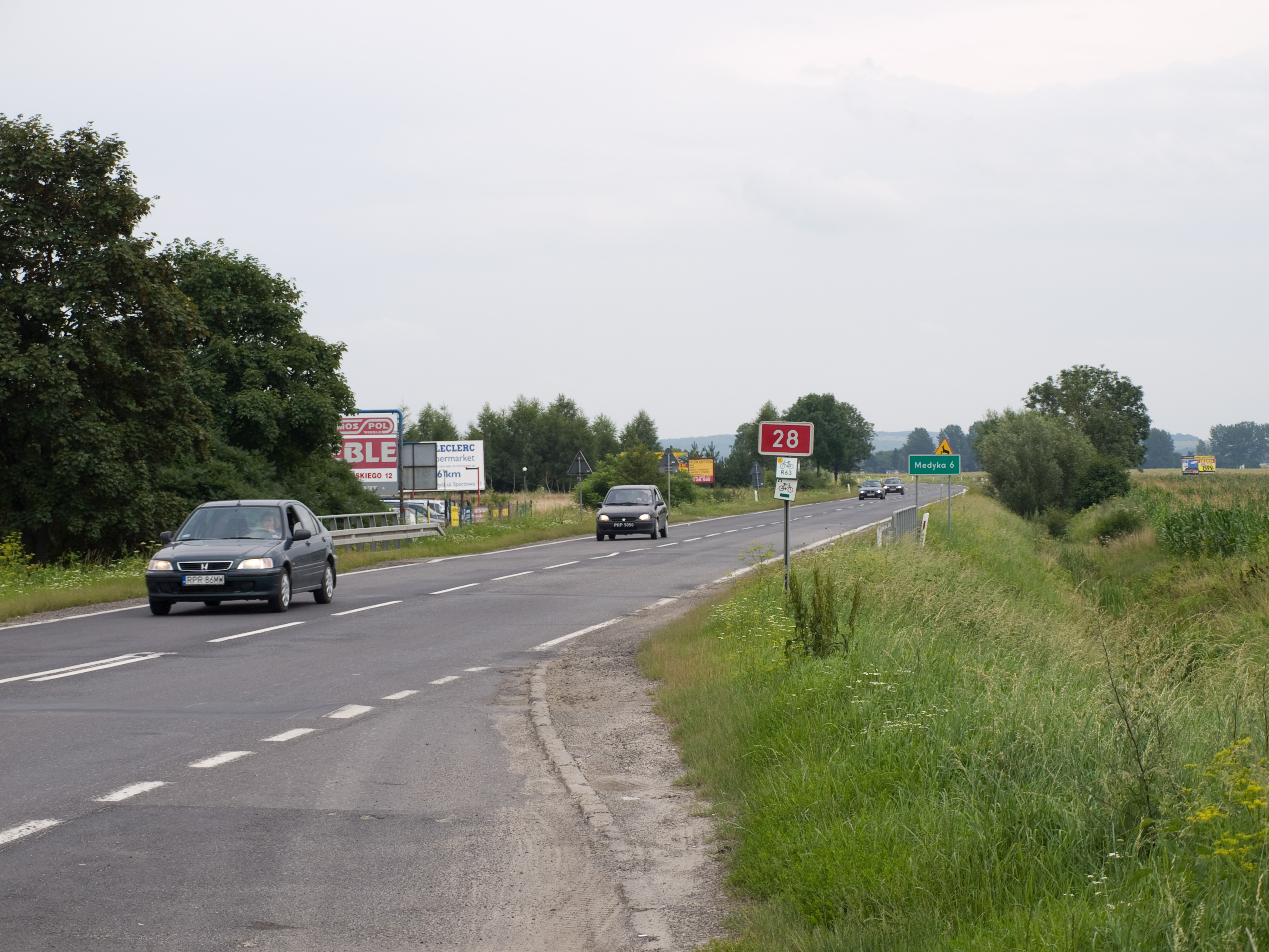 Lwowska, Przemyśl, Subcarpathian Voivodeship